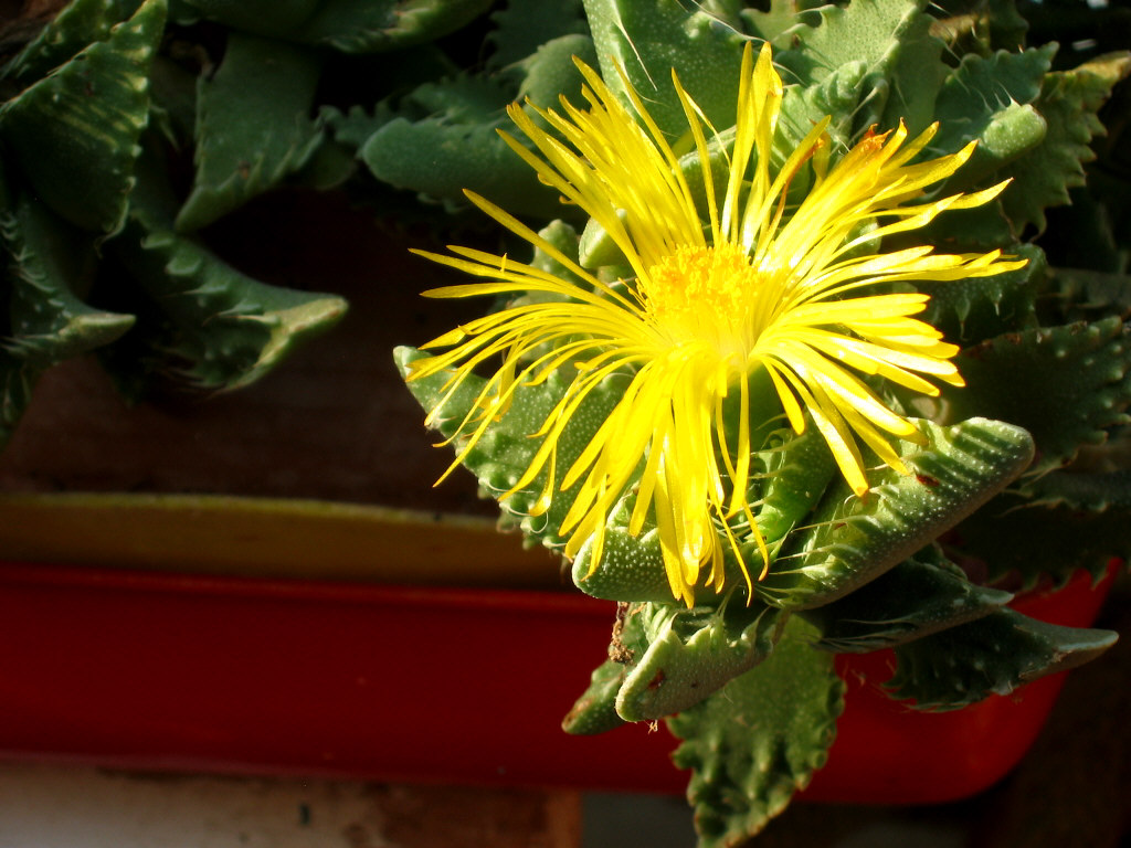 Faucaria tigrina flower detail. Autor/author:User:Anna